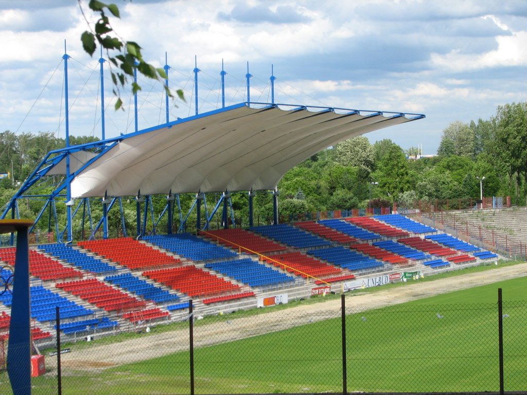 Main tribune of the Polonia Bytom Stadium - viewed from the curve.